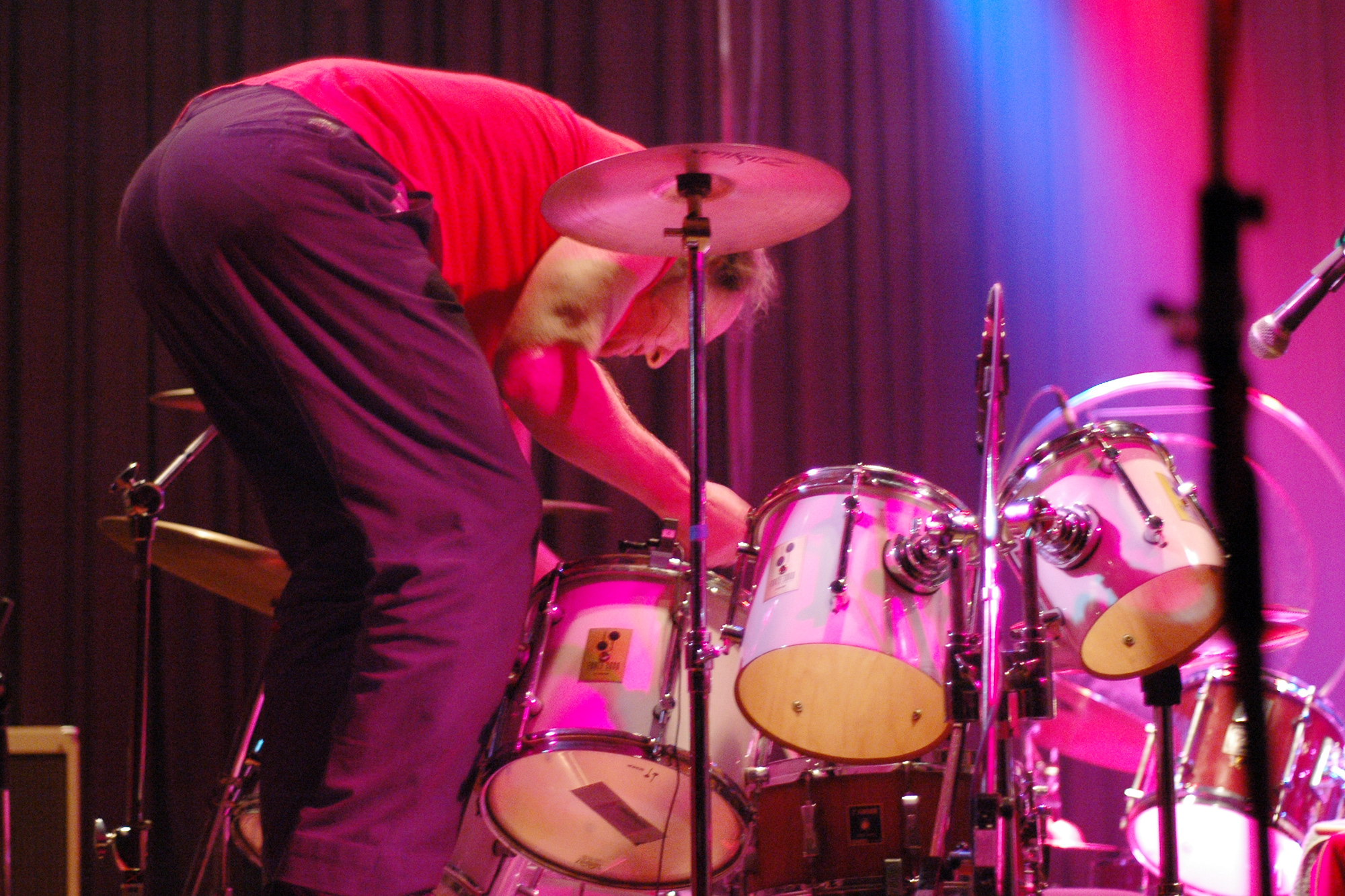 Birth Control, Bernd Noske